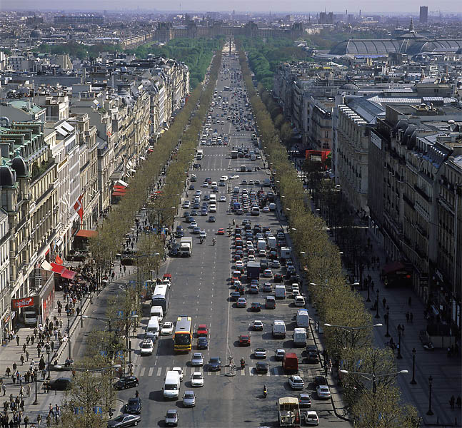 Avenue des Champs-Élysées in Paris, seen from top of Arc de Triomphe.